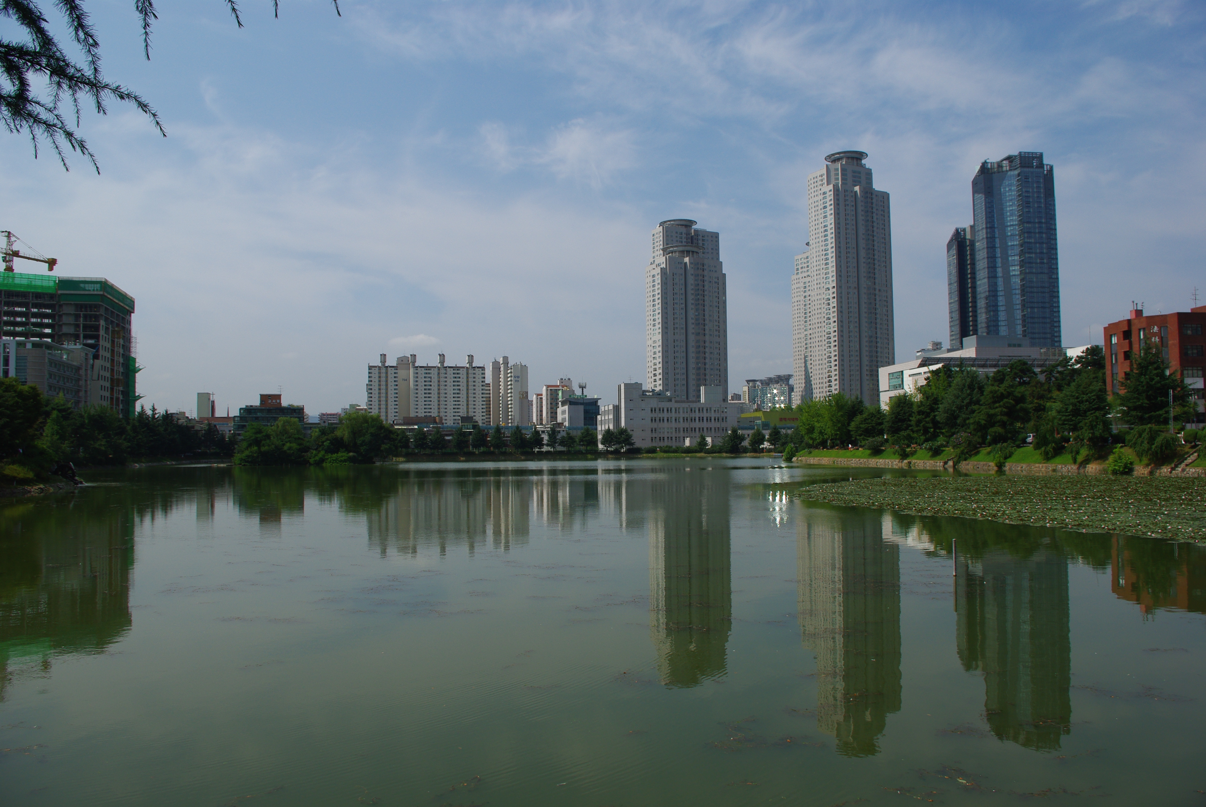 Photo taken of the Konkuk University Lake facing south showing Star City residential towers in the background